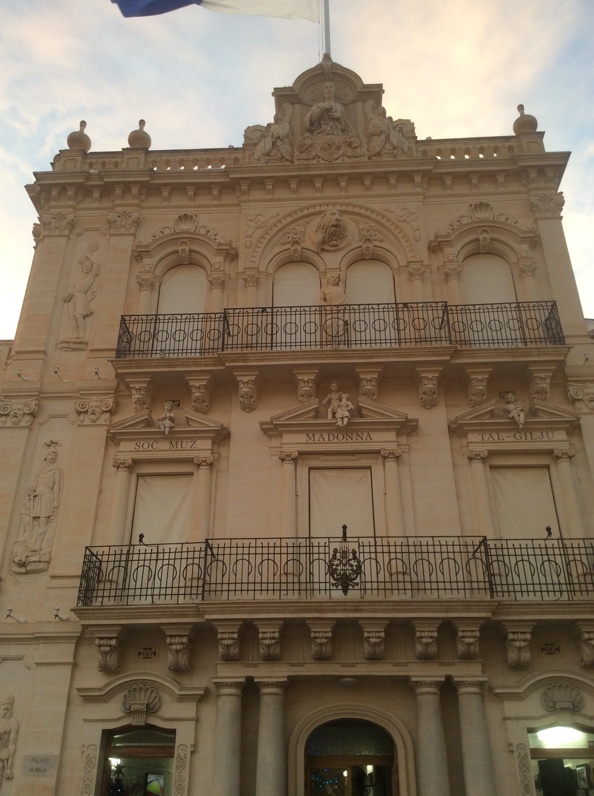 Palazz Il-Gilju Mqabba Malta, Band Club